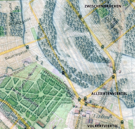 Grossenzersdorf near Vienna. 3nd Military Survey